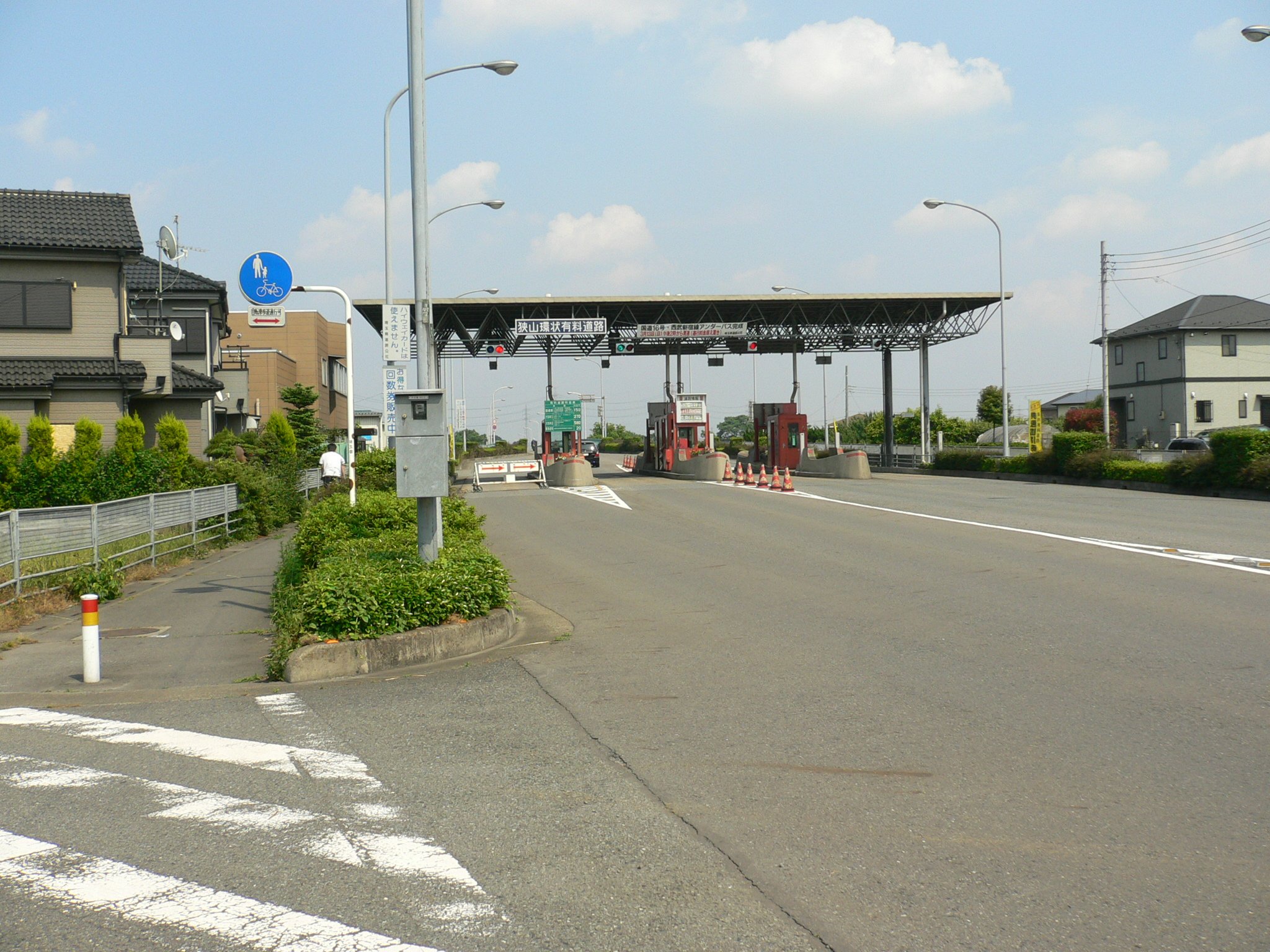 Saitama prefectural road No.397(Sayama loop(埼玉県道397号堀兼根岸線,狭山環状有料道路) in Sayama C, Saitama P.